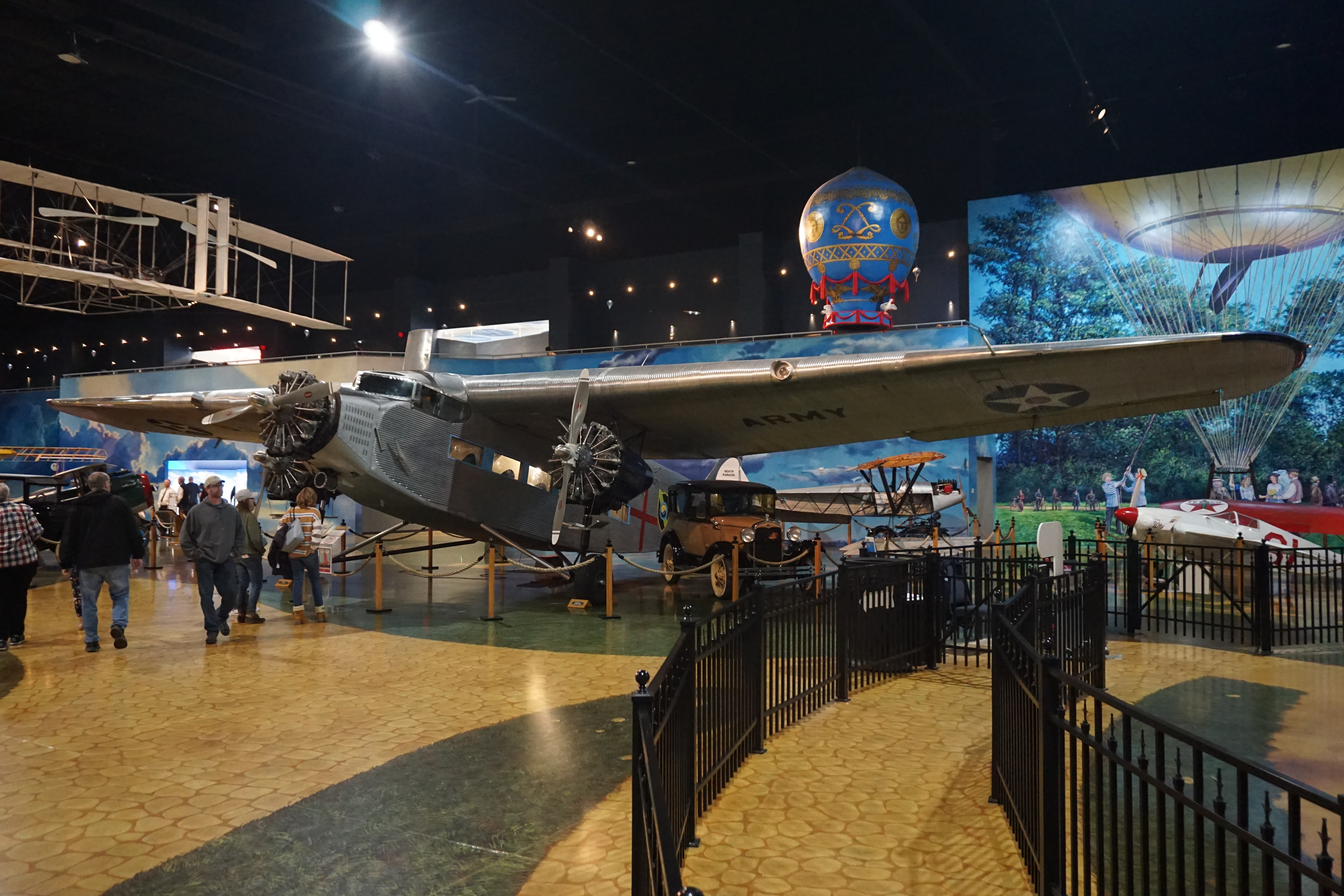 A Ford Tri-Motor on display at the Air Zoo at Kalamazoo/Battle Creek International Airport in Portage, Michigan (United States).